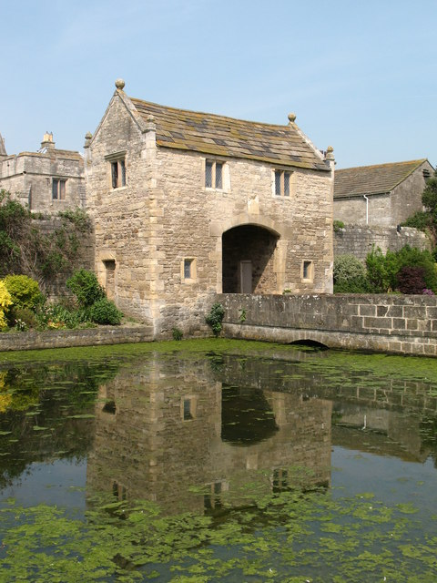 Markenfield Hall gatehouse The 16th century gatehouse guards the entrance to the courtyard from the bridge across the moat, although by the 16th century there would have been little need for defences.